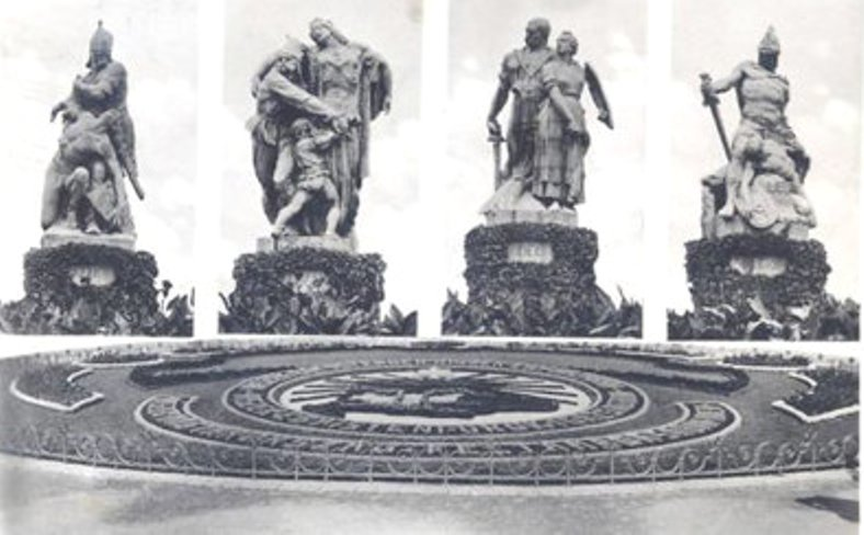 Irredenta sculptures